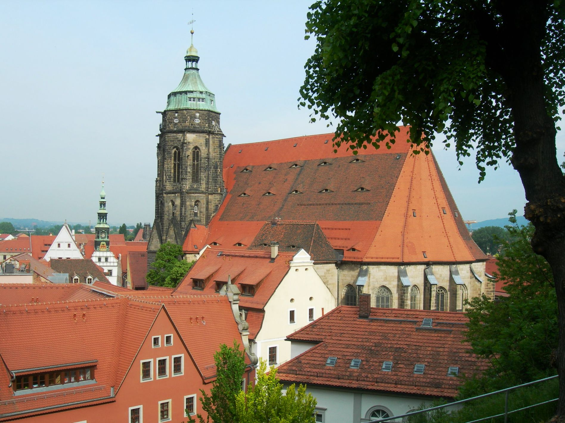 Pirna, St. Mary church from the Castle hill.)